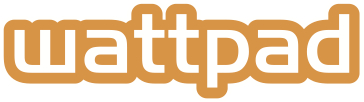 Wattpad Logo